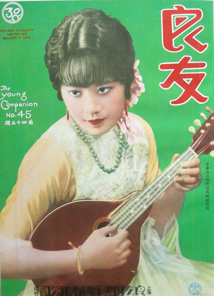 Guan Zilan on the cover of 良友 [Liángyǒu] magazine #45. Magazine also had alternate title in English, The Young Companion.""